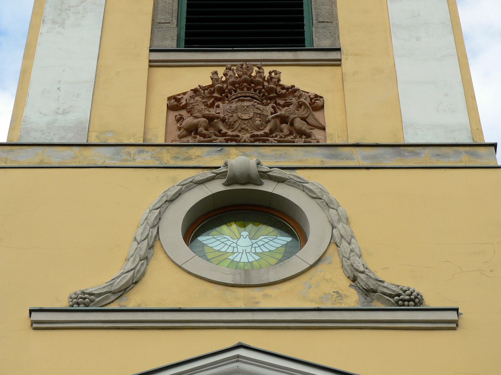 Pilisvörösvári templom homlokzati ablaka